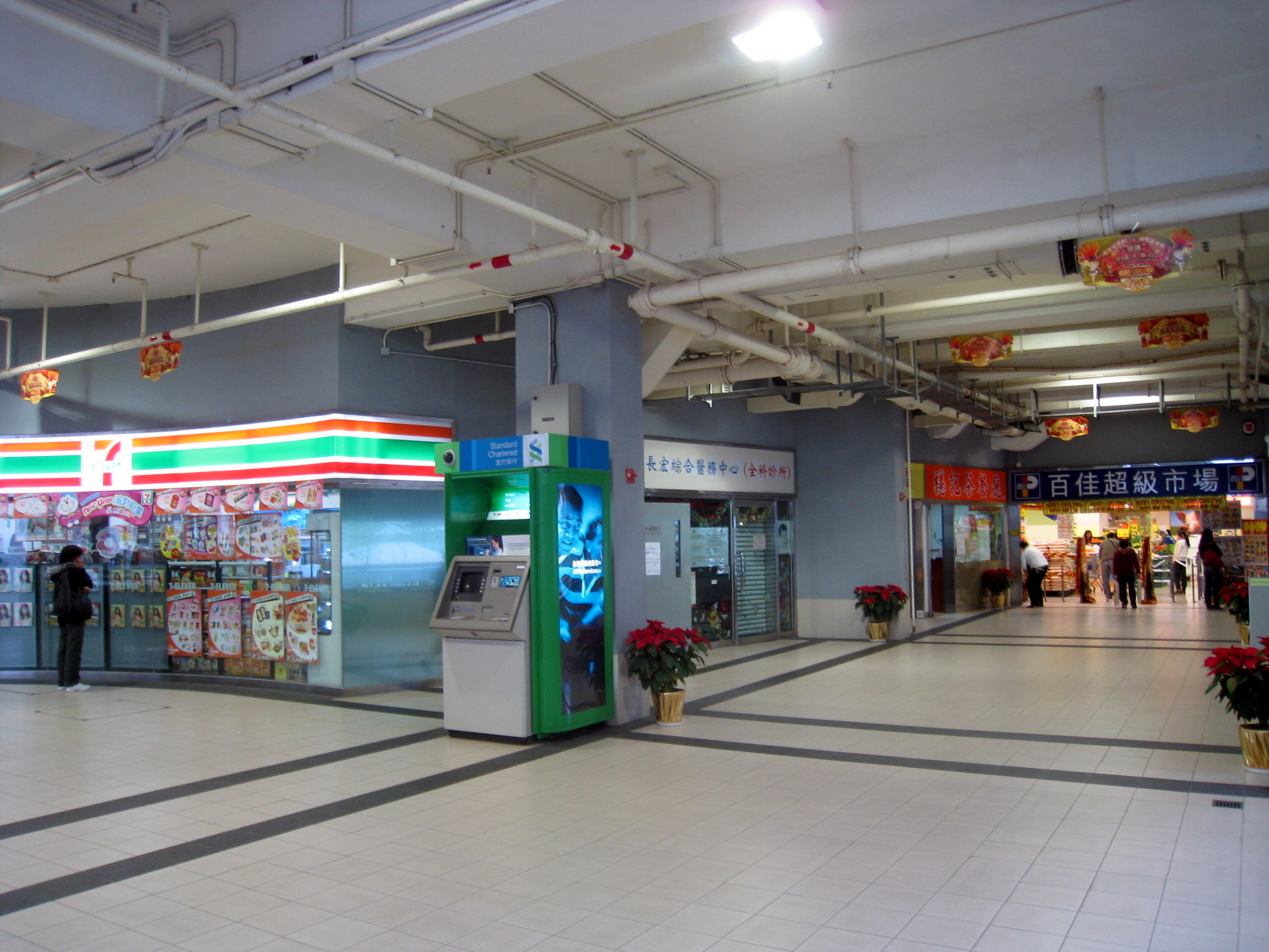 Cheung Wang Estate Shopping Centre 長宏邨商場